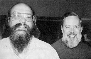 Photo of Unix creators Ken Thompson (left) and Dennis Ritchie (right) from the latest edition of the Jargon File